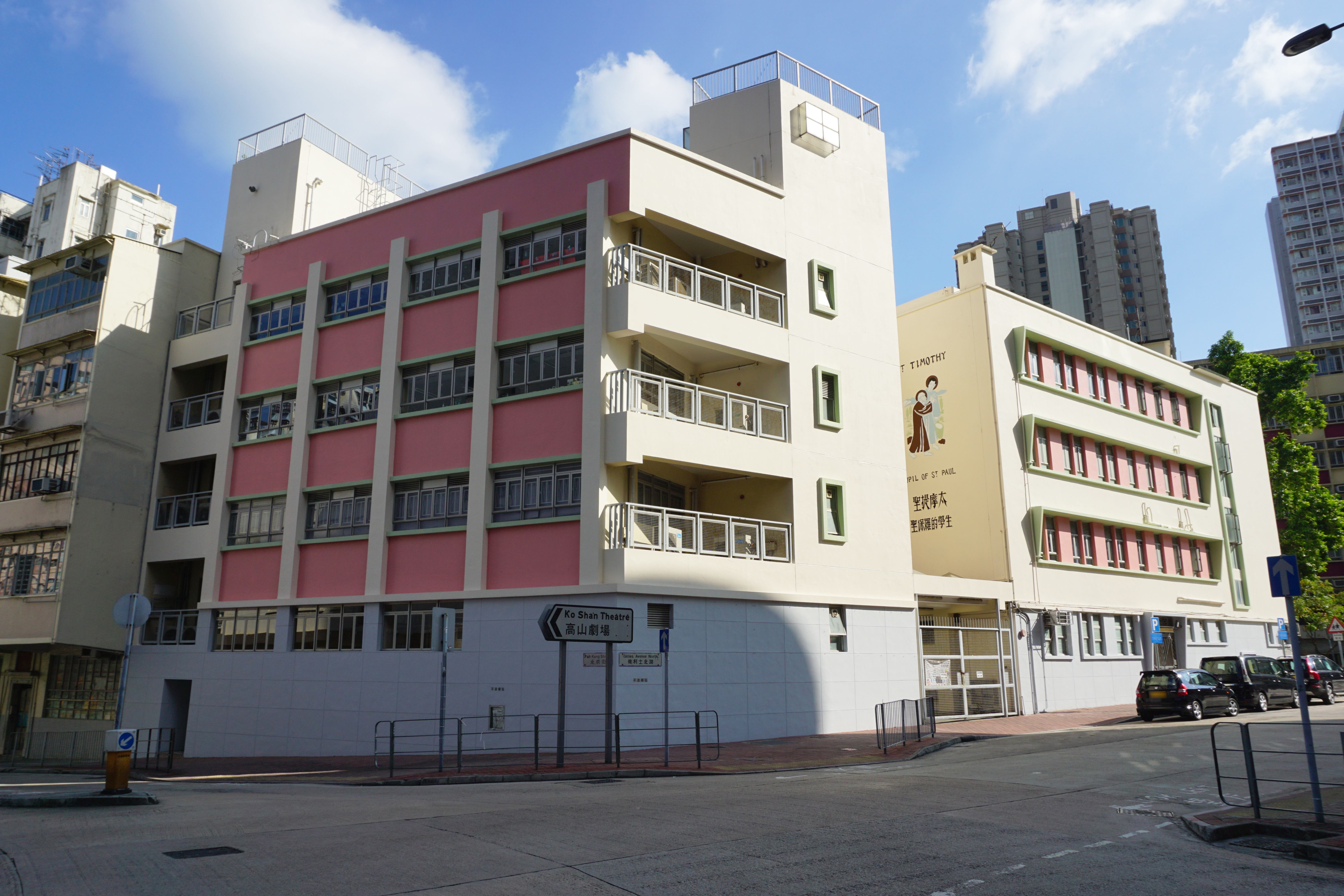 Sheng Kung Hui St. Timothy's Primary School in Hung Hom, Hong Kong.